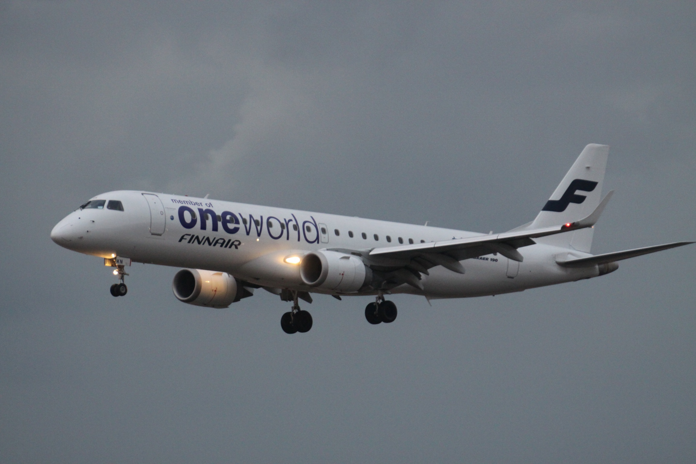 At Dusseldorf